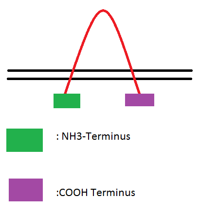 Corrected Transmembrane Image hypothesis for C9orf91